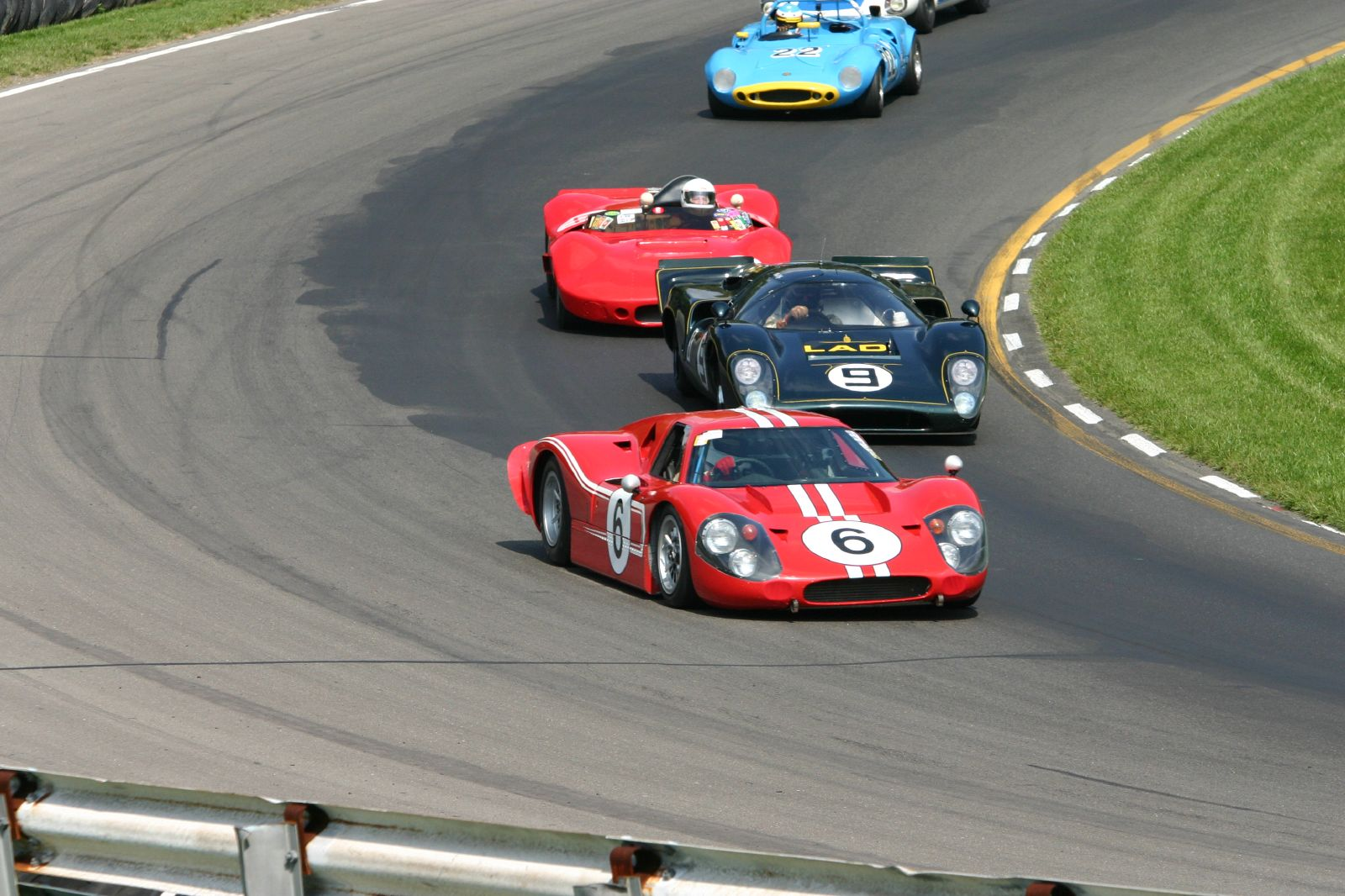 1967 Ford GT40 Mk IV and Lola T70 Mk III at 2004 Watkins Glen SVRA